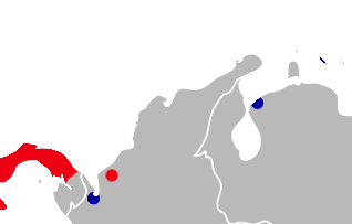 Distribution of the genus Oryzomys in Panama and northwestern South America. Red: O. couesi; brown: O. gorgasi.